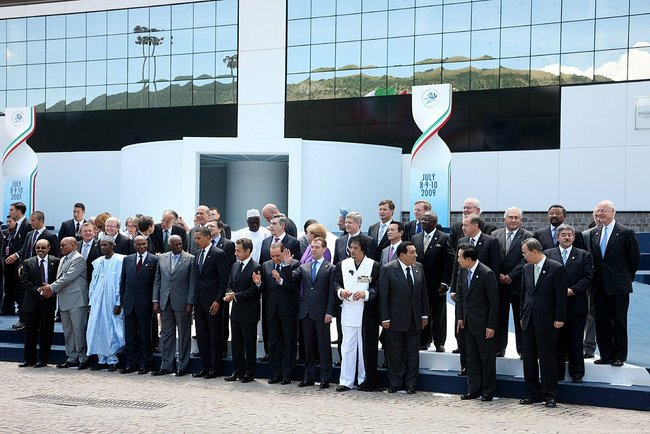 L'AQUILA, ITALY. Participants in the G8 Summit.